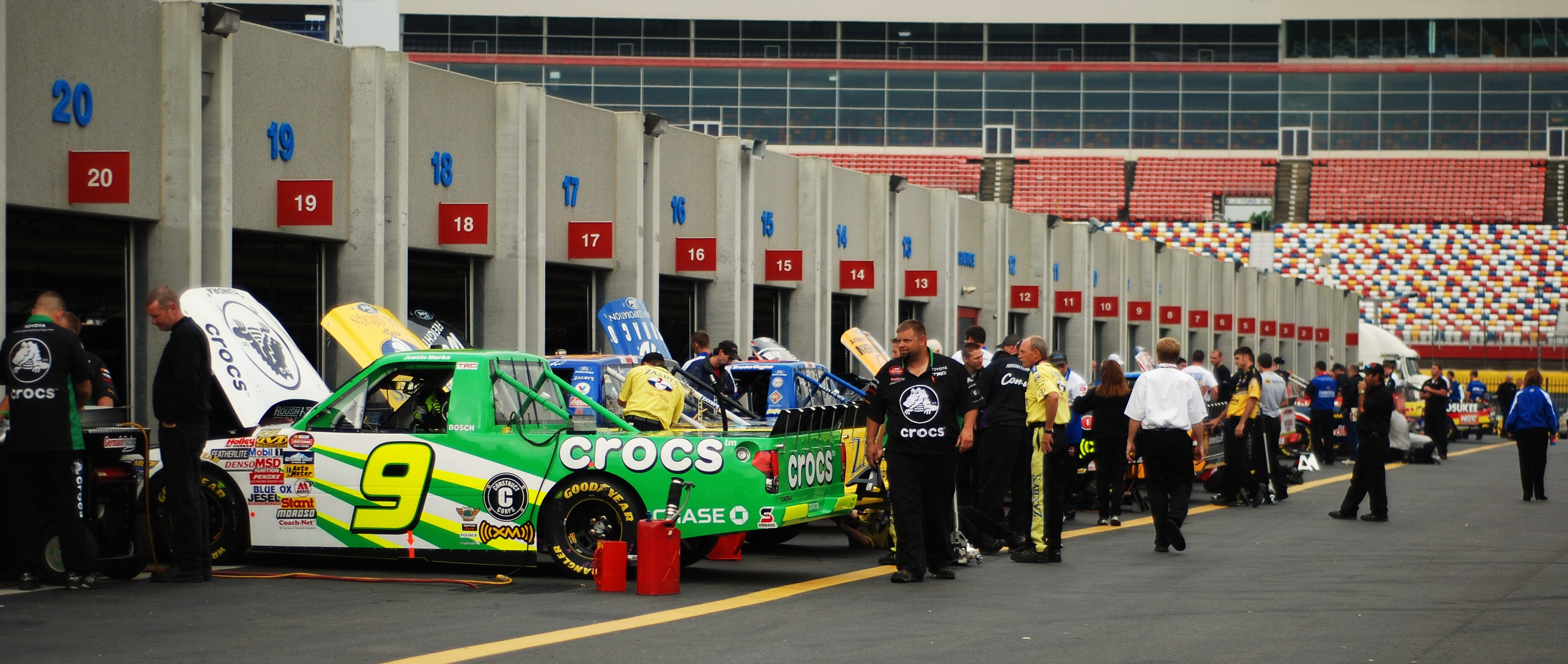 Trucks at the All Star weekend, Lowes Motor Speedway.